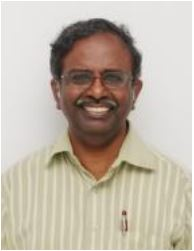 Portrait of Nirmal Selvamony who is the current Head-in-Charge, Department of English in Central University of Tamil Nadu